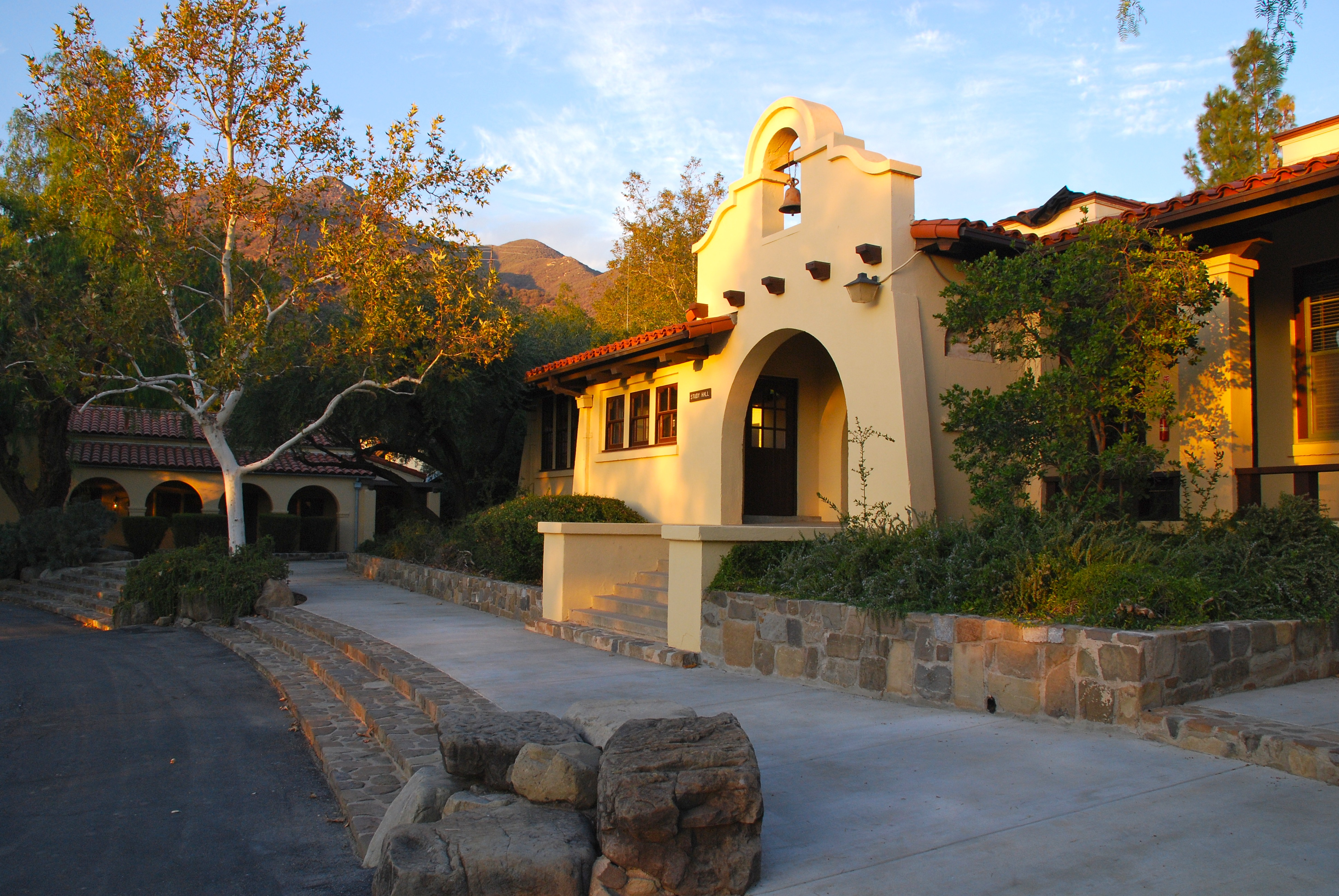 Constructed in the 1890s, Old Main is the oldest academic building on the Thacher School campus — Ojai, Southern California.